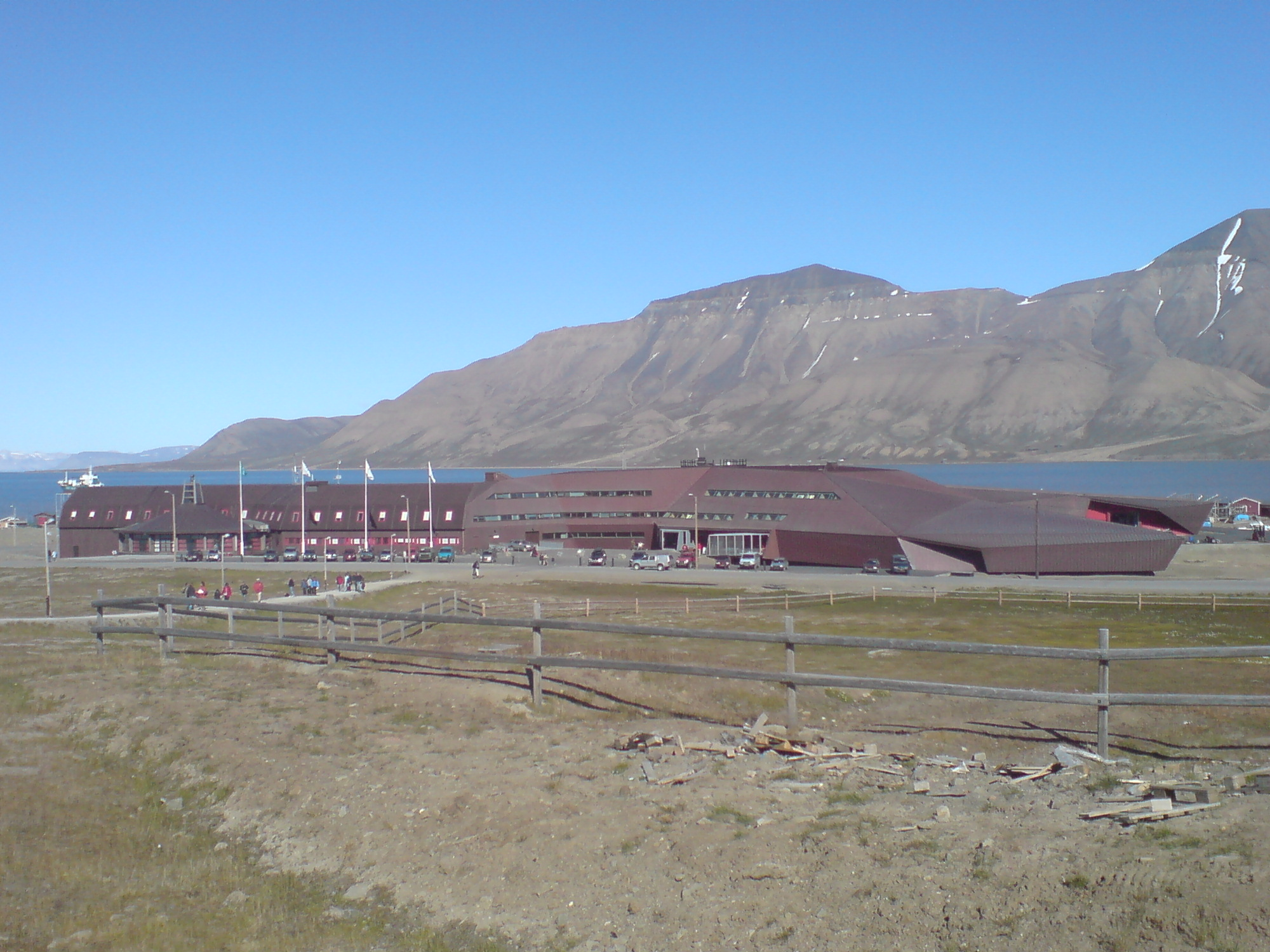 The University Centre in Svalbard (UNIS), Longyearbyen, Svalbard (Spitsbergen)